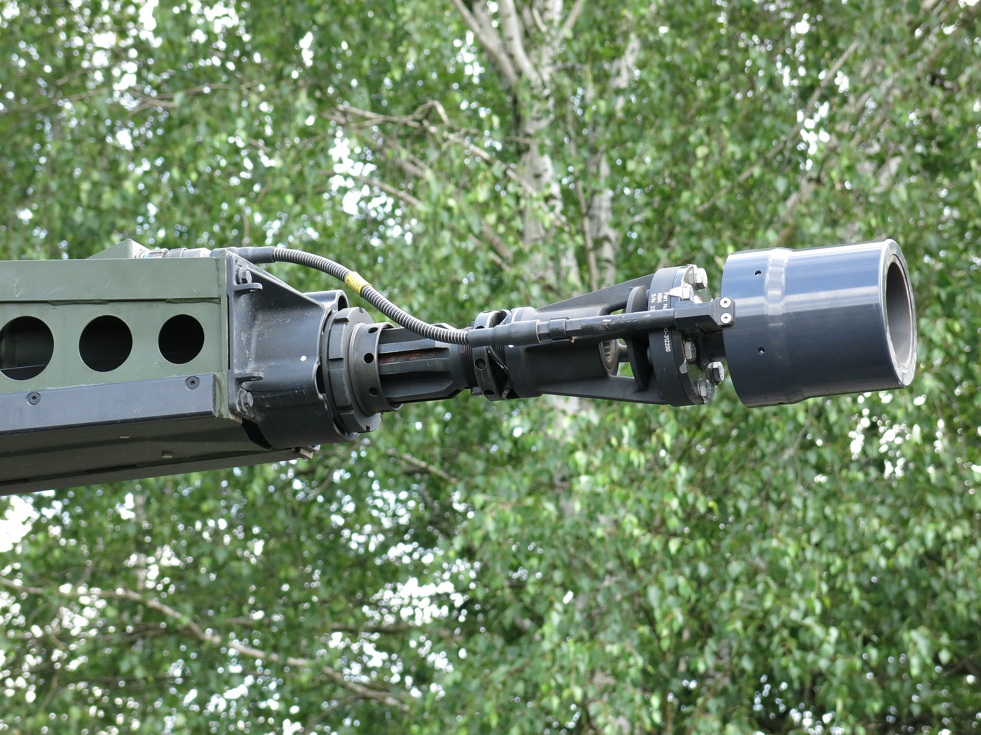 MK 30-2/ABM muzzle with a measurement and programming component. The device consists of coils for inductive measurement of the projectile's initial velocity and for programming the electronic fuze. Open day at German Army Training Centre, Munster 2015